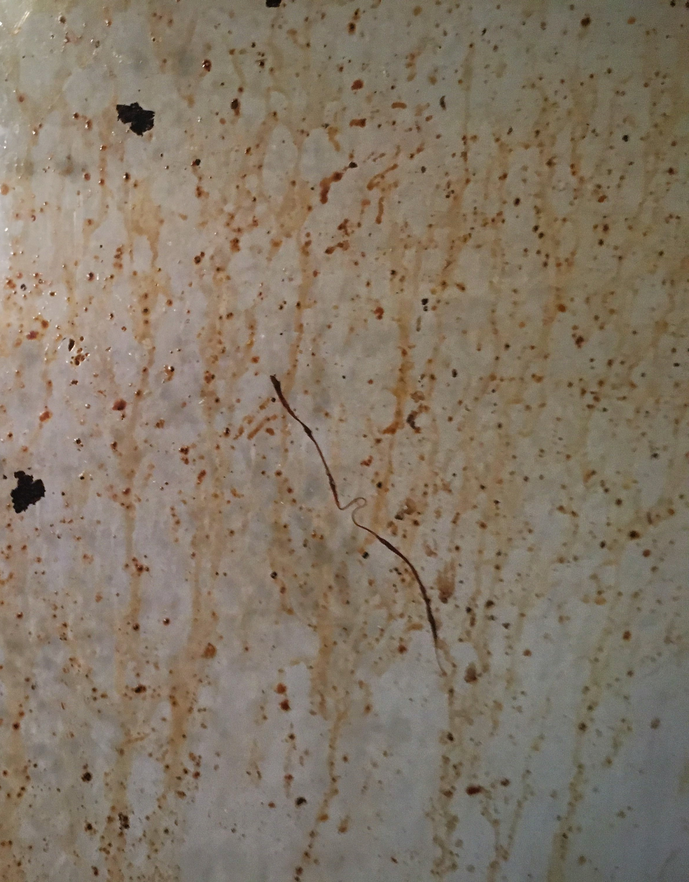 burnt in fat